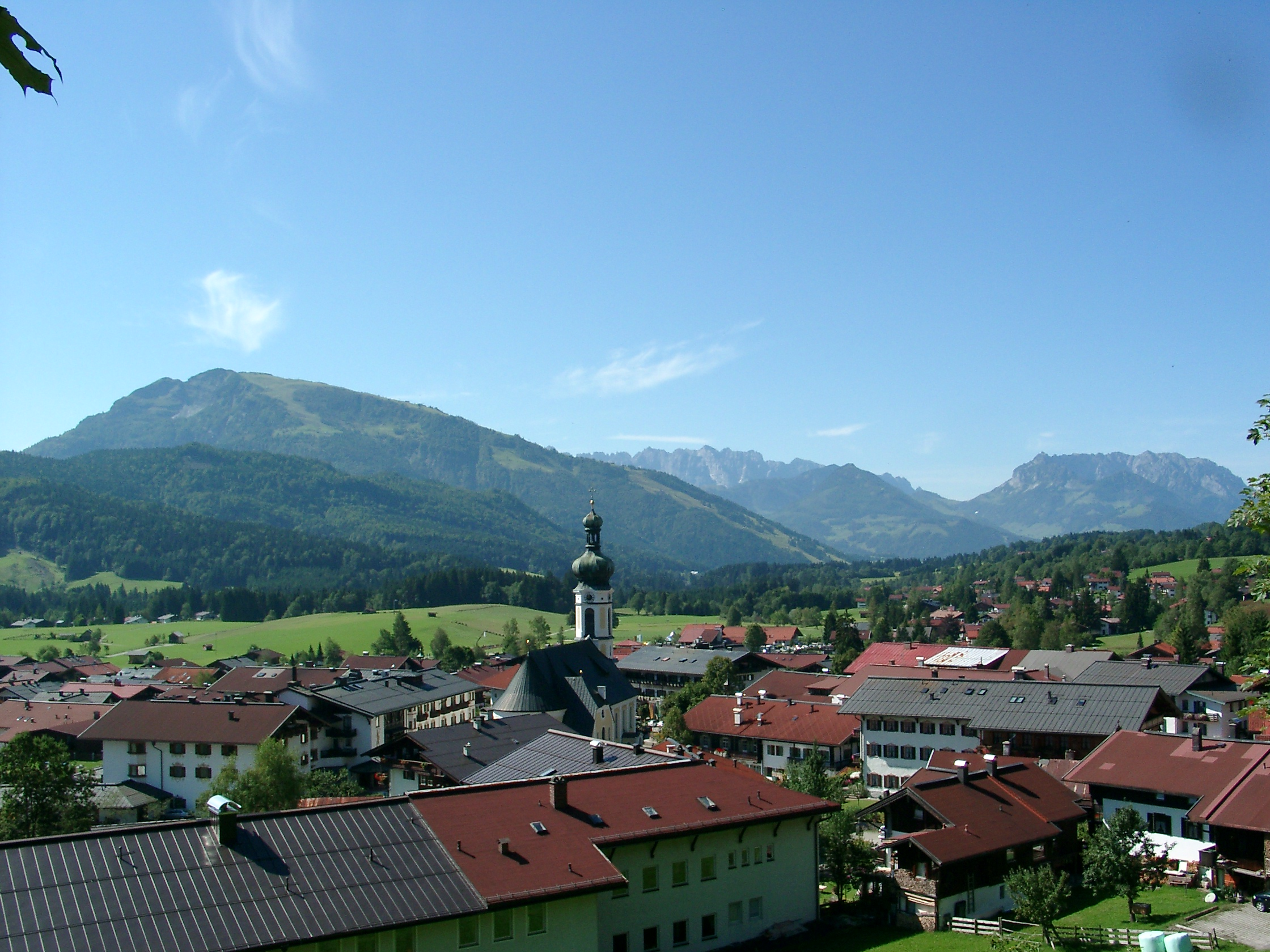 View over Reit im Winkl with Unterberg und Wilder- und Zahmerkaiser